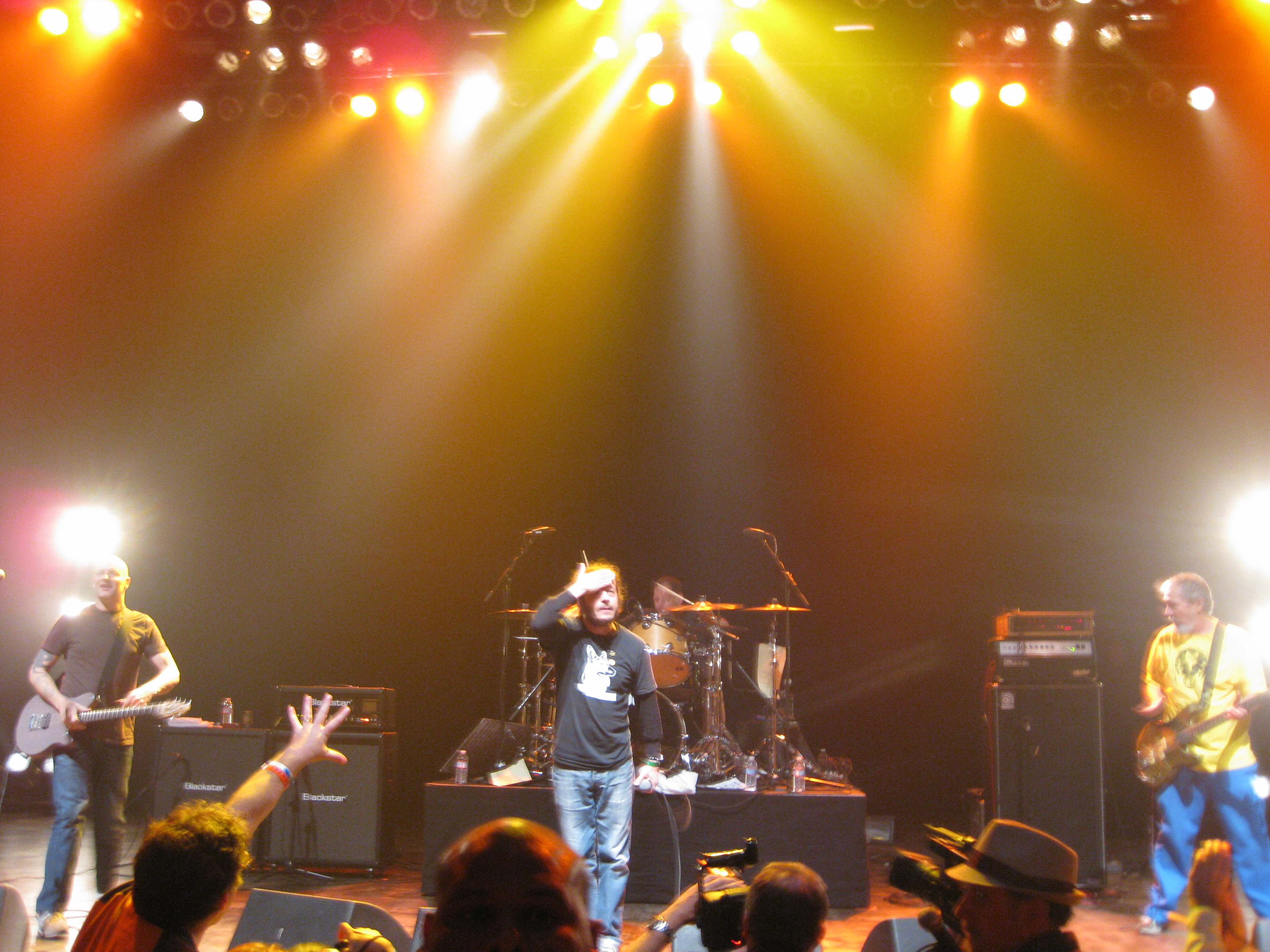 Left to right: Guitarist Stephen Egerton, singer Keith Morris, drummer Bill Stevenson, and bassist Chuck Dukowski performing as Black Flag on December 18, 2011 at the Santa Monica Civic Auditorium in Santa Monica, California as part of the GV30 event.